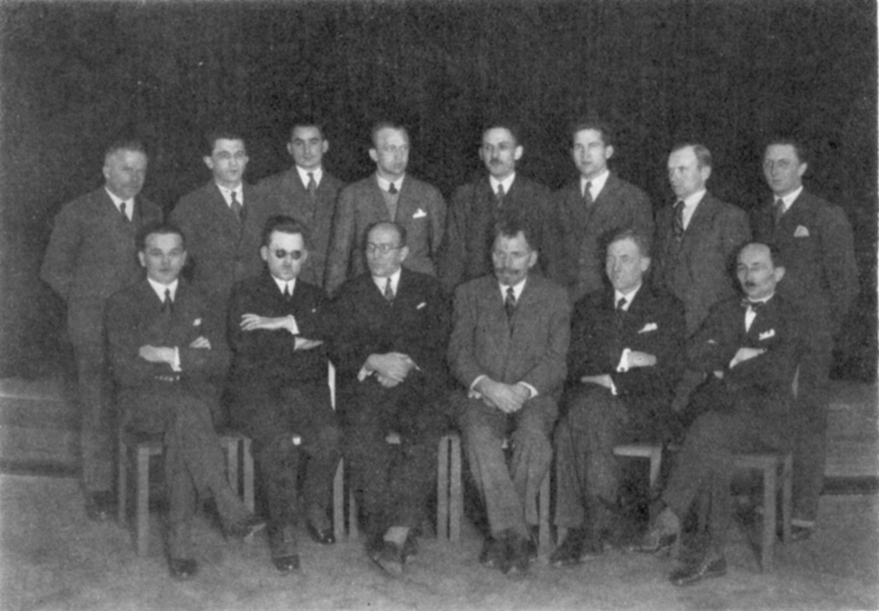 The teachers of Polish High School (Gimnazjum Polskie) in Bytom. Sitting from the left: Edward Szwed, Florian Nowak, Miłosz Sołtys, Antoni Józefczak (administrator), dr Wiktor Nechay de Felseis, Józef Henke. Standing from the left: Franciszek Krzykała, Wiktor Przybylski, Wincenty Kowal, Edward Wojaczek, Edmund Maćkowiak, Stanisław Olejniczak, Alojzy Cembala, Czesław Tabernacki (secretary).